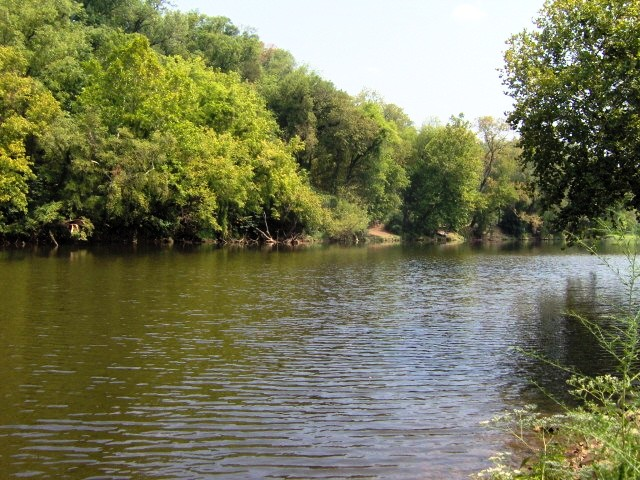 The Pigeon River in Newport, Tennessee. The river flows from its source high in the Balsam Mountains of North Carolina down to its confluence with the French Broad River, some 10 miles northwest of Newport at what is now Douglas Lake. Special thanks to the two locals, fishing lackadaisically, who warned me of a hornet's nest I was about to step into.